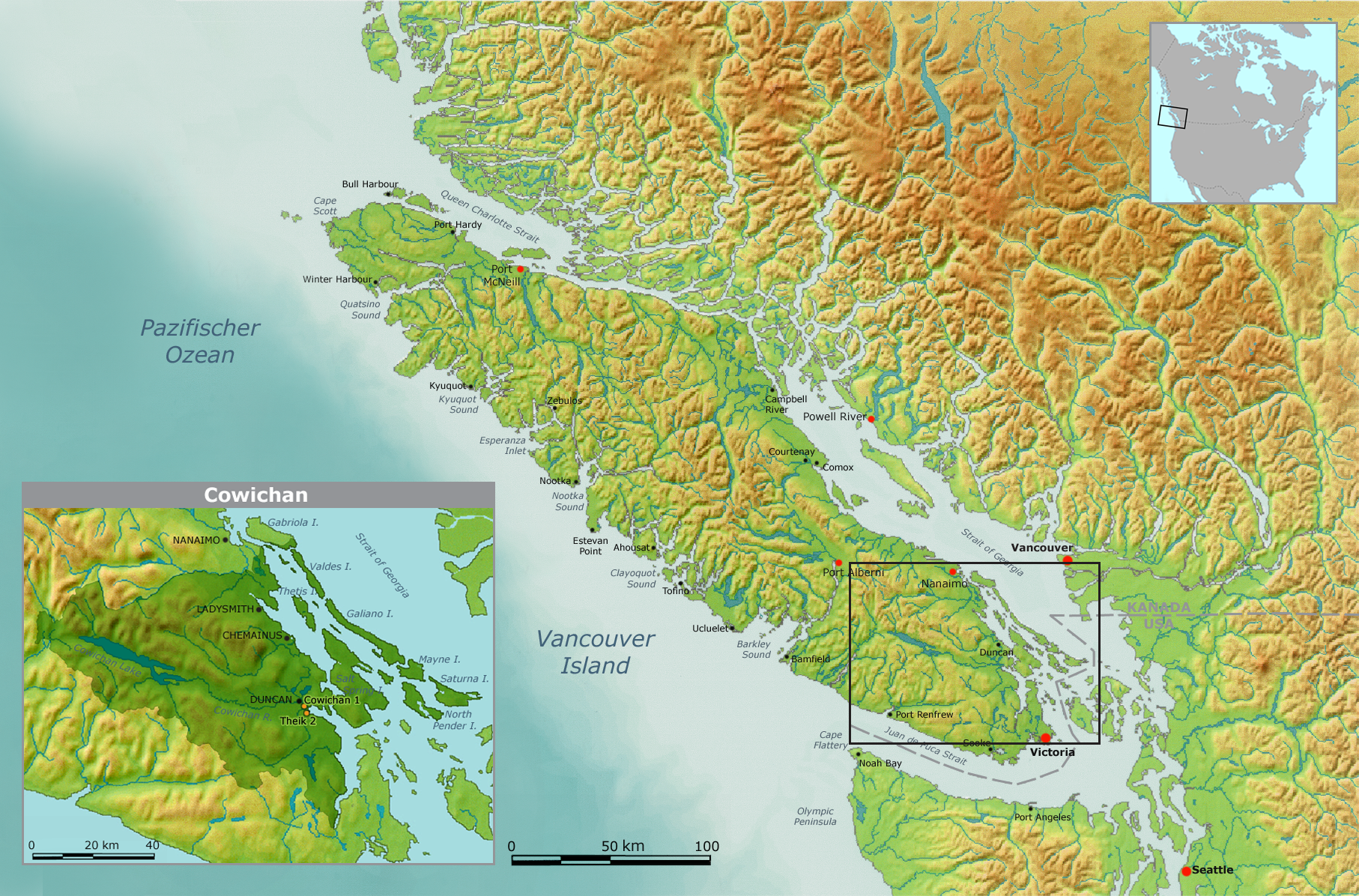 Map of traditional Cowichan tribal territory.